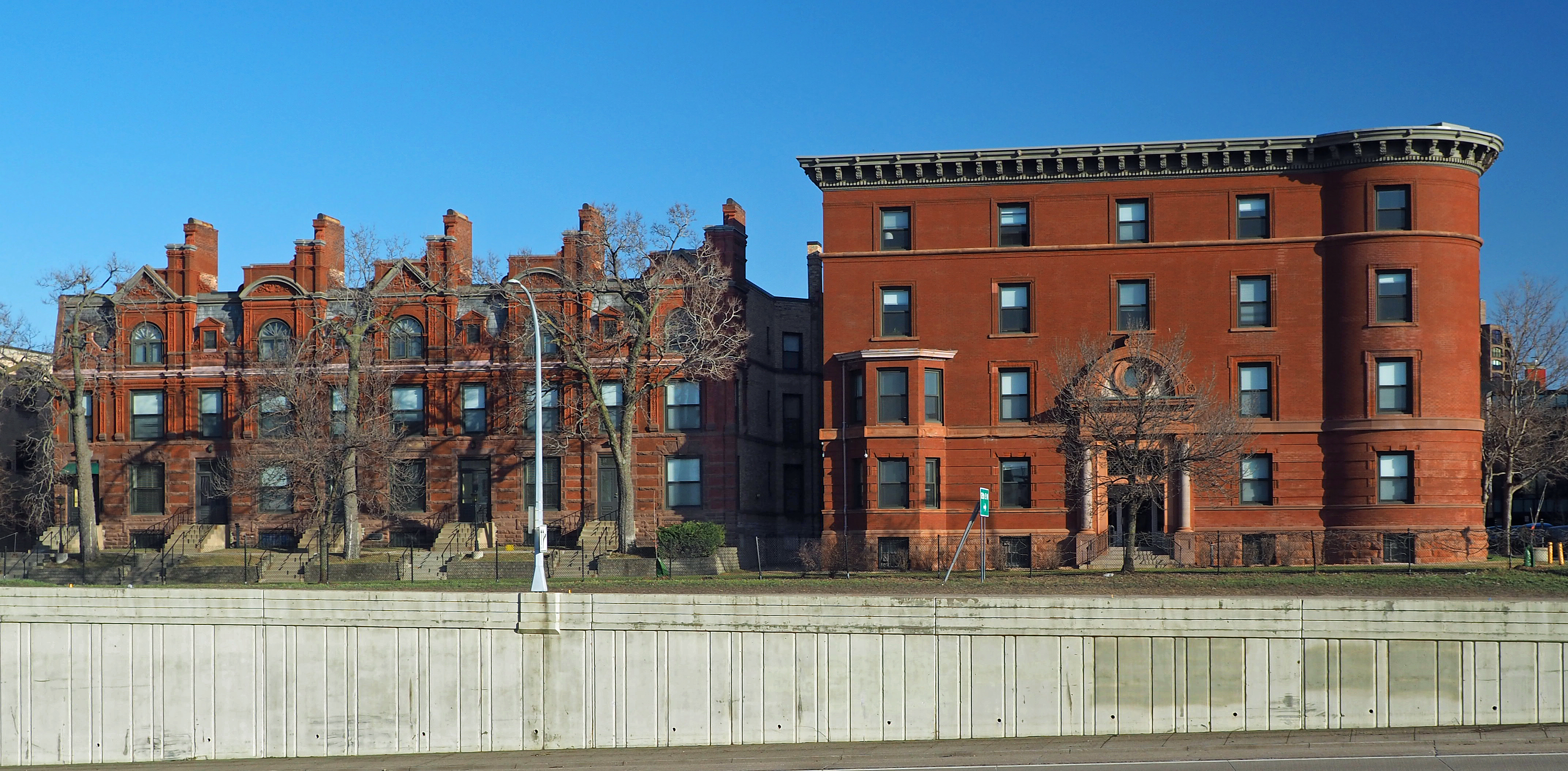 Swinford Townhouses & Apartments, 1213–1225 Hawthorne Ave, Minneapolis, Minnesota, USA. Viewed from the north-northwest.